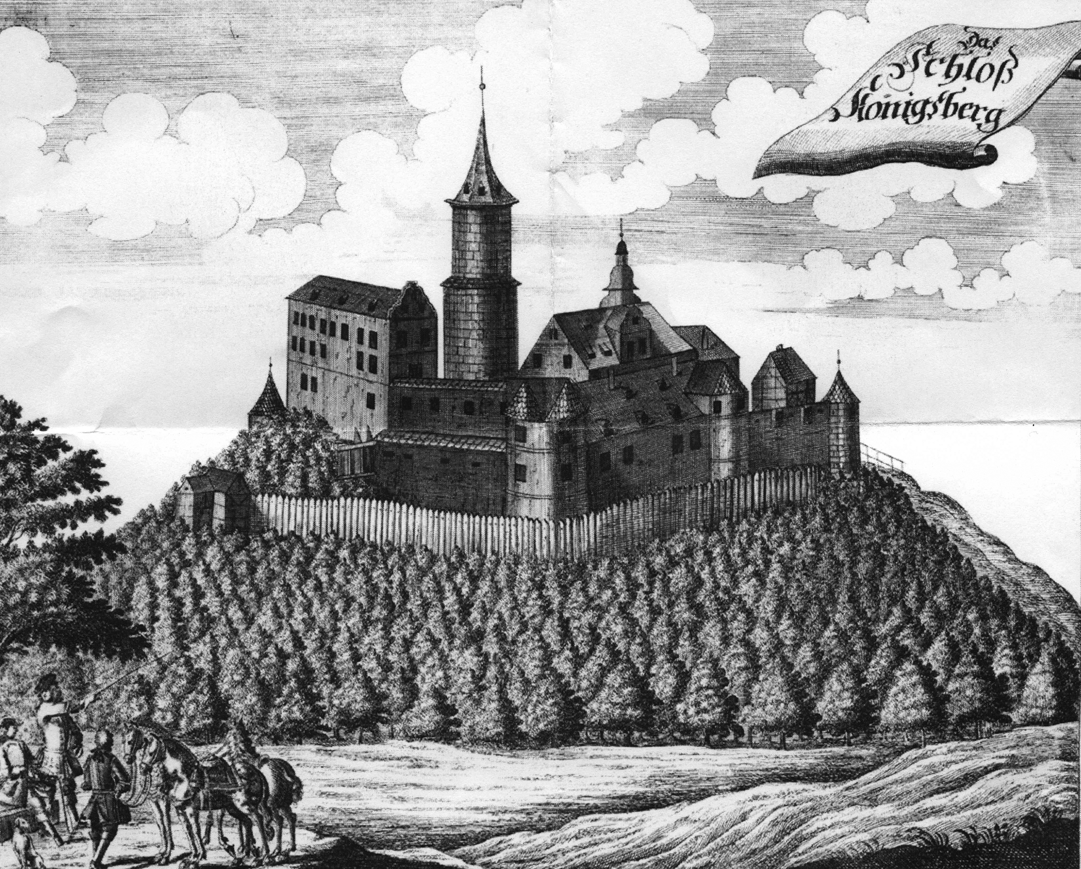 A view at the castle of Königsberg, dated to 1717.